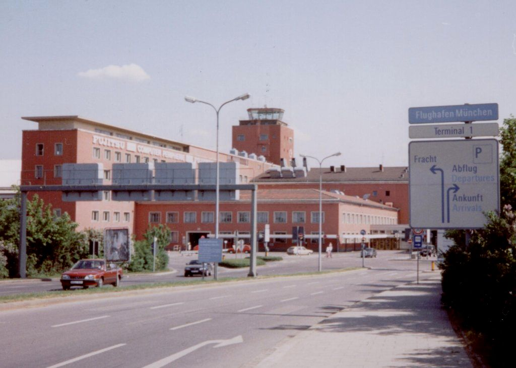 Munich-Riem Airport, a few days after closure of flight service.